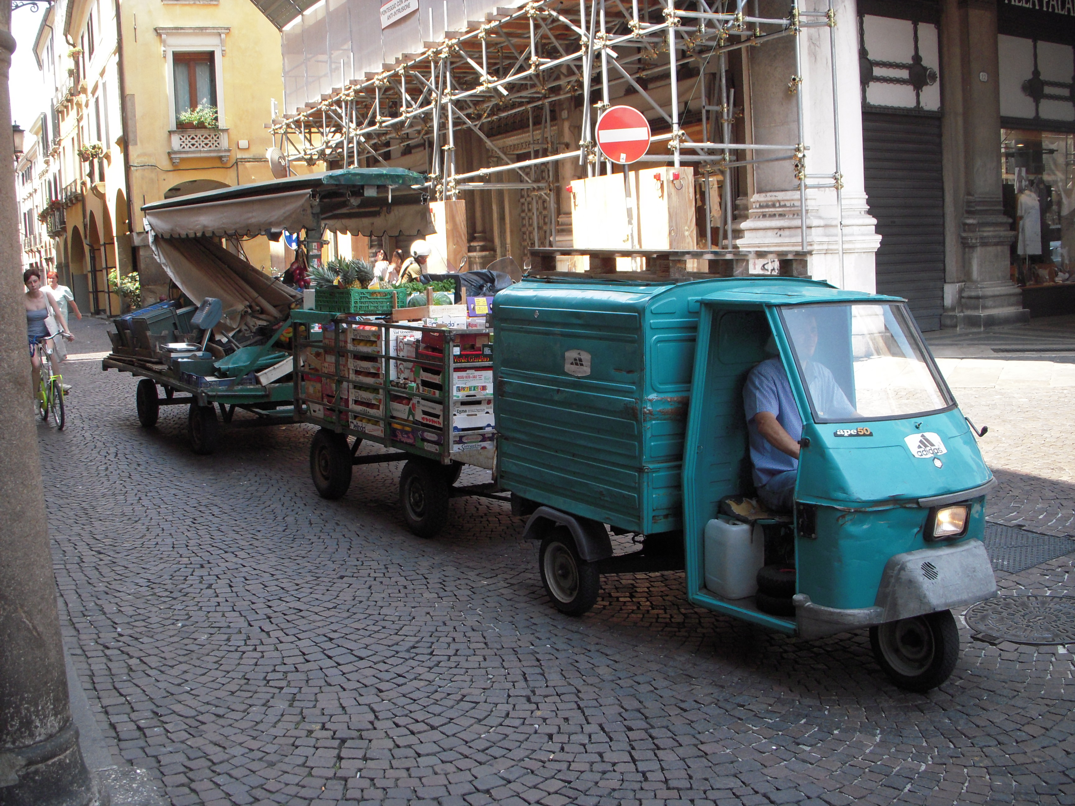 Piaggio Ape 50 with a couple of trailers near the market square in Padua. June 2010.